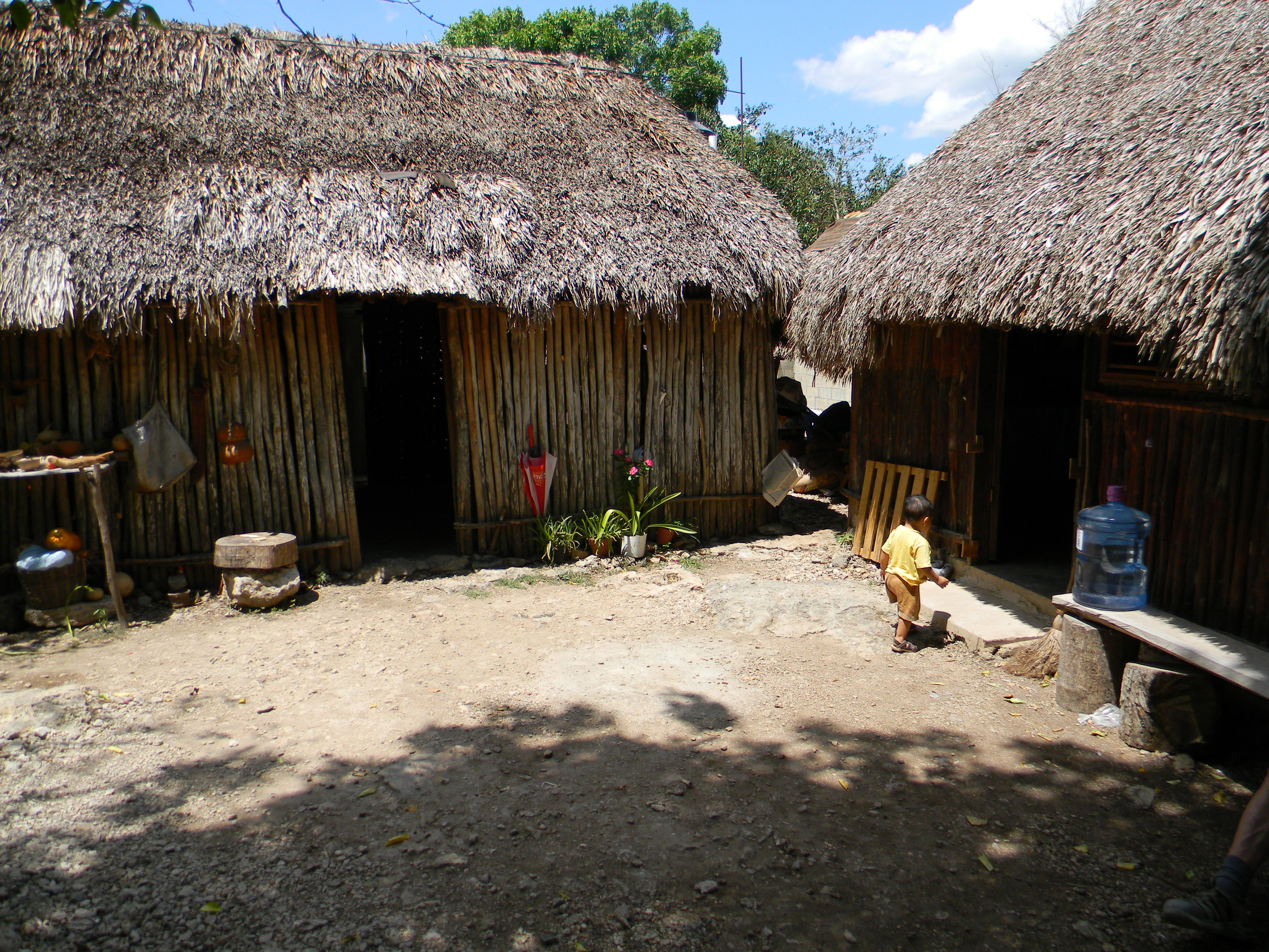 Cobá Village Pacchen, Traditional House Frontyard